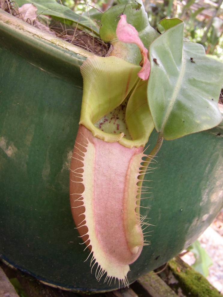 Photo of the plant in a nursery.